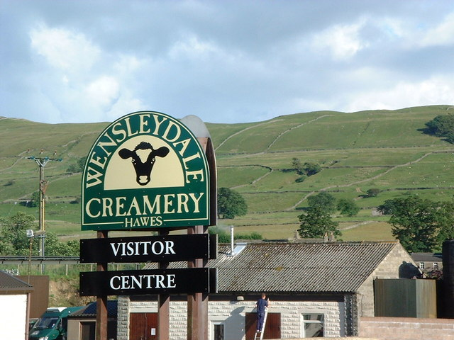 Home of Wensleydale cheese. A logo familiar on a hundred supermarket shelves. One of the best things about this visitor centre is its restaurant - excellent food and service, and Theakston's ale.